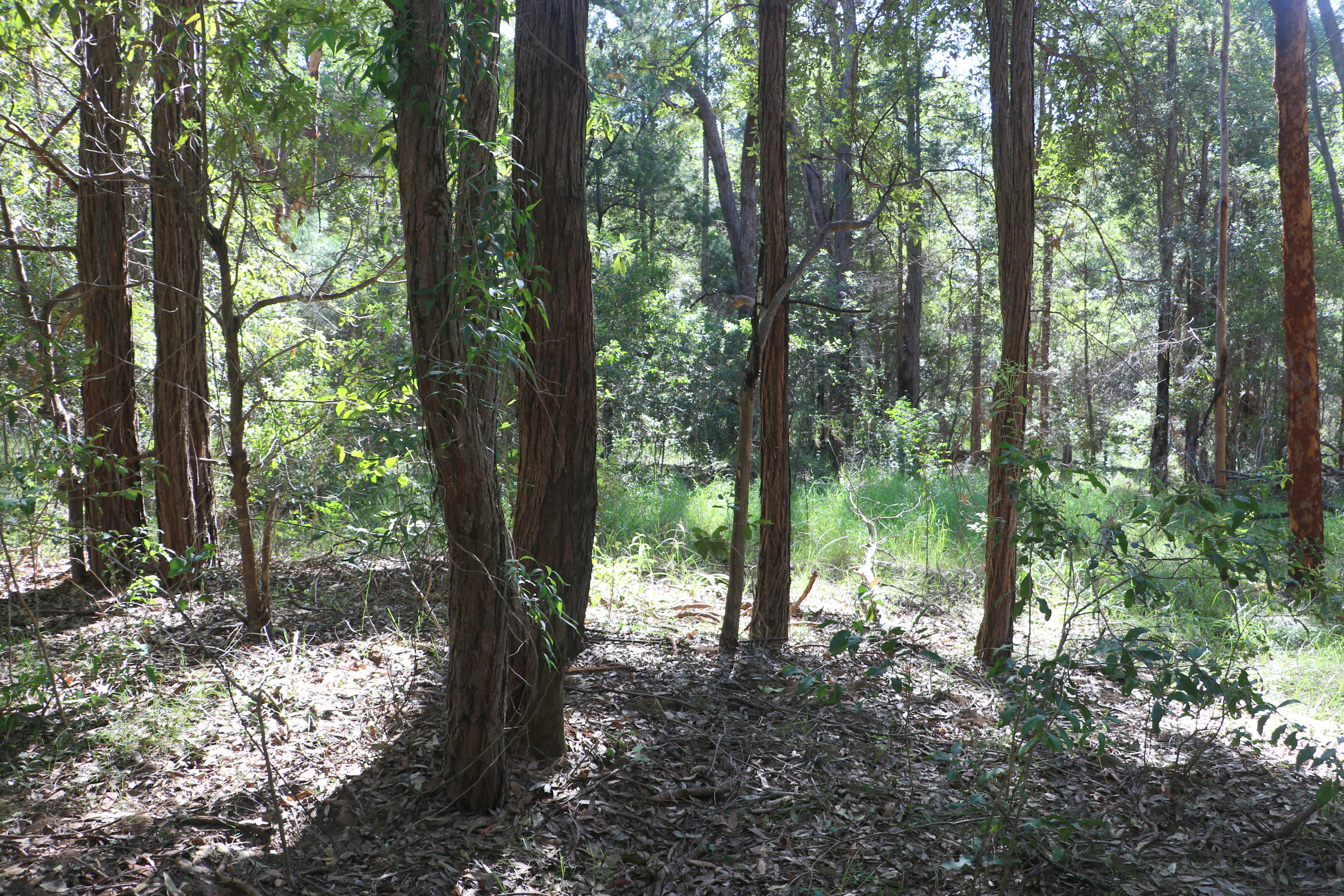 Turpentine trees at Wallumatta Nature Reserve (Syncarpia glomulifera)